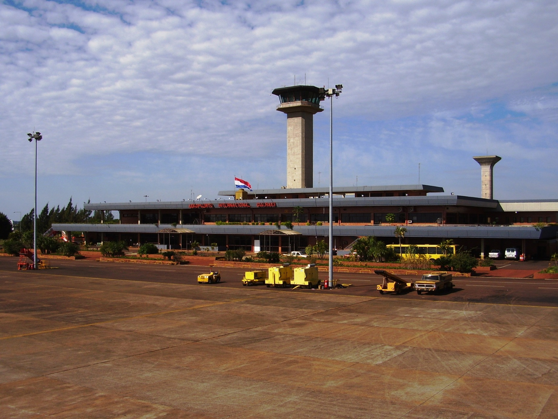 Guaraní International Airport